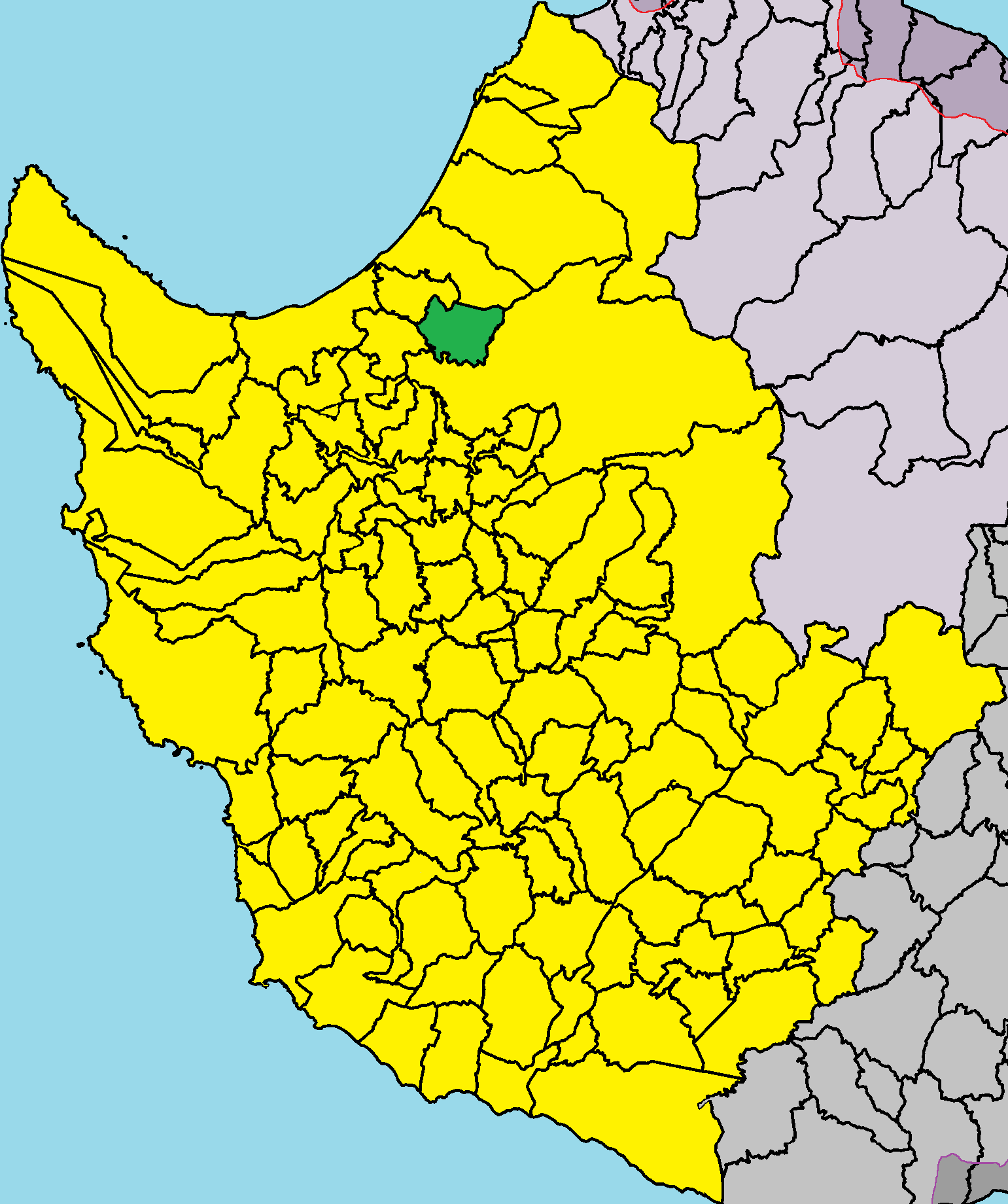 Kinousa in Paphos District.